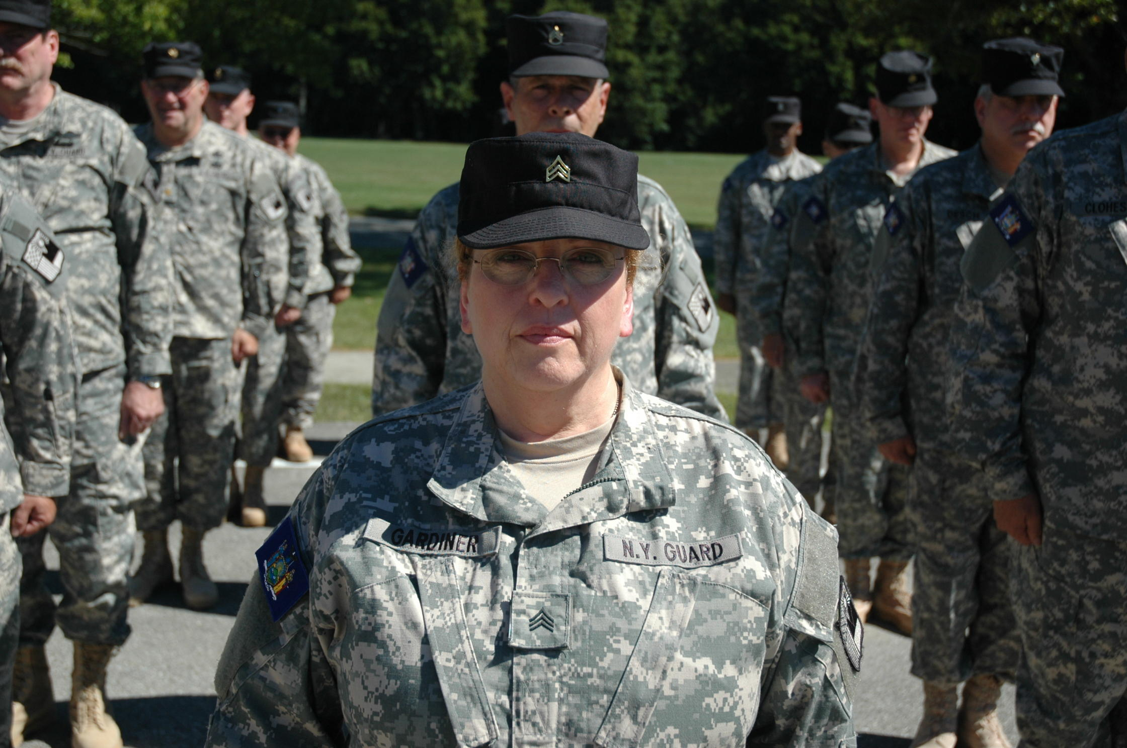 New York Guard, State's Volunteer Defense Force, conducts annual training at Camp Smith July 21-26